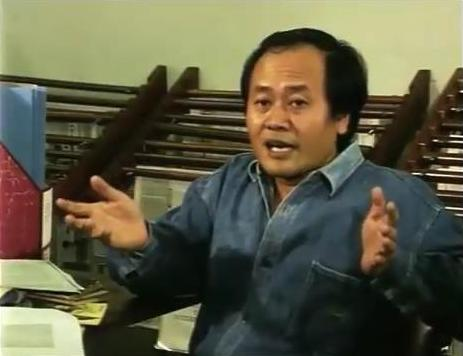 Eka Budianta in Lontar Foundation film on Suman Hs (at 01.56)